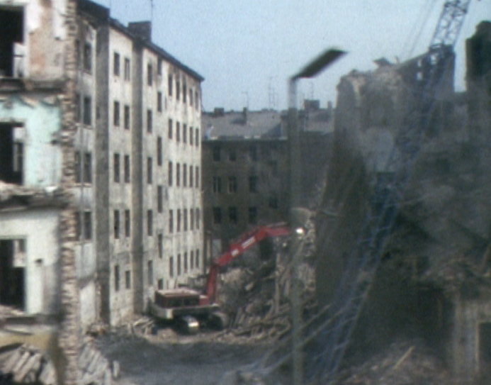 Demolition of Block 104 in Kreuzberg 36 in Berlin, Germany. Still image from a Super8 film